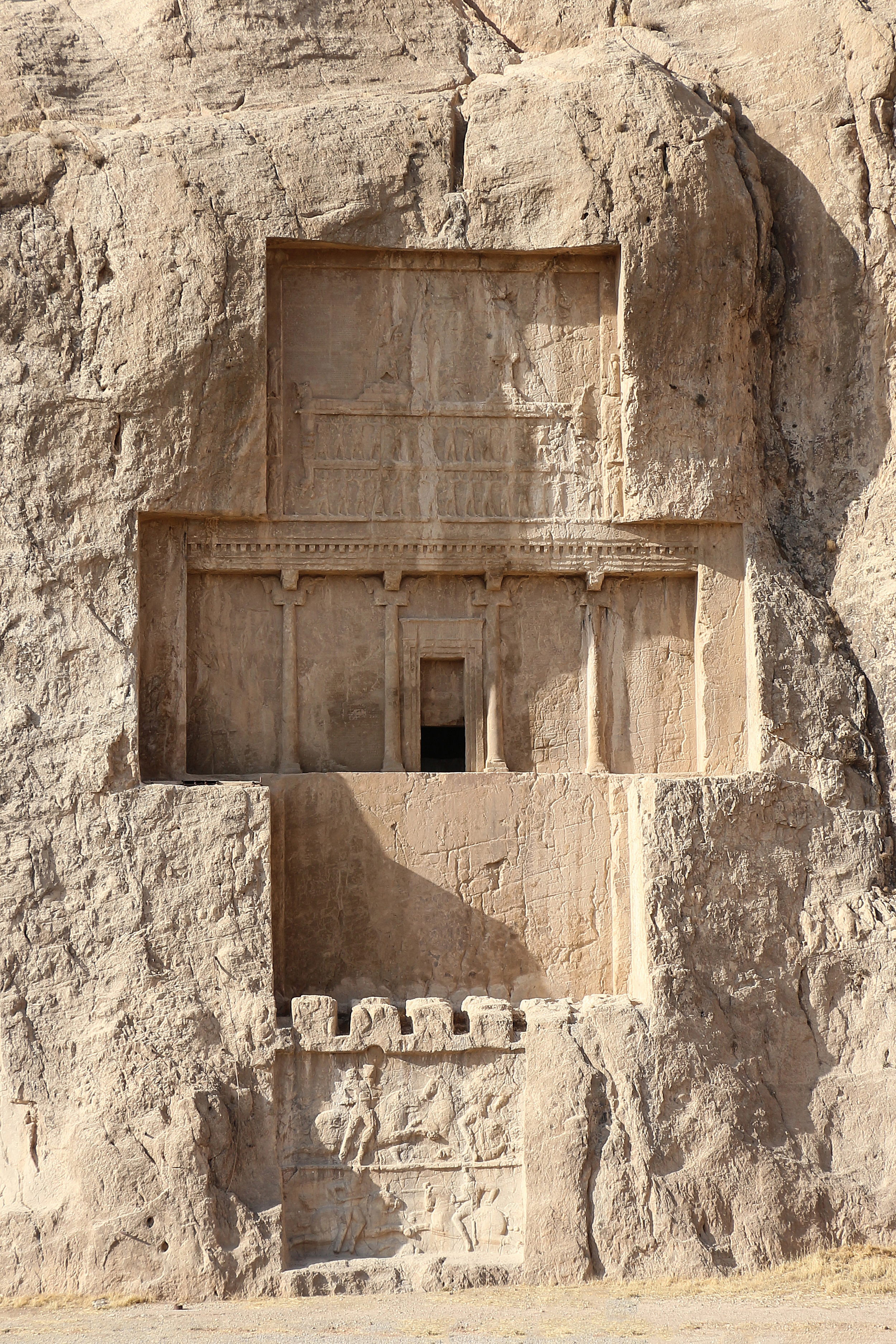 Tomb of Darius I, Naqsh-e Rustam, Iran